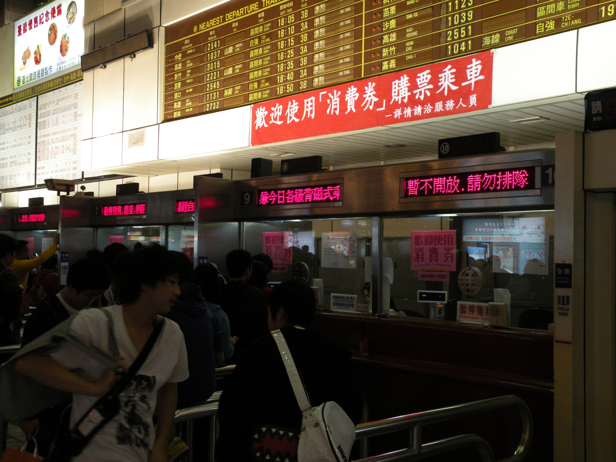 The ticket windows in Ticketing Hall, Taipei Station, Taiwan Railway Administration. There are also some ads about consumption voucher.